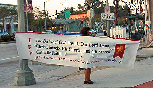 Protests outside of the movie theater, the Pacific Culver Stadium, across from the Culver Hotel (Culver City), erupted around 7:30 PM, on May 20, 2006. A man and a woman carried large banners and there was a display along the road.